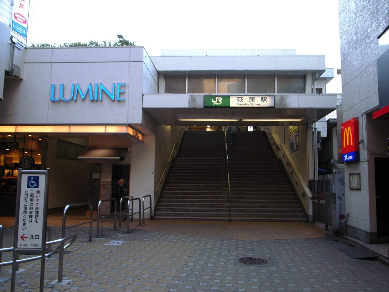 West Entrance (North) of Ogikubo Station, Suginami-ku, Tokyo, Japan